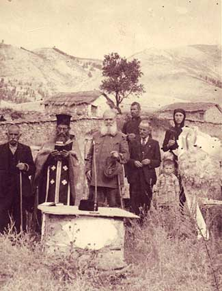 Tane Nikolov